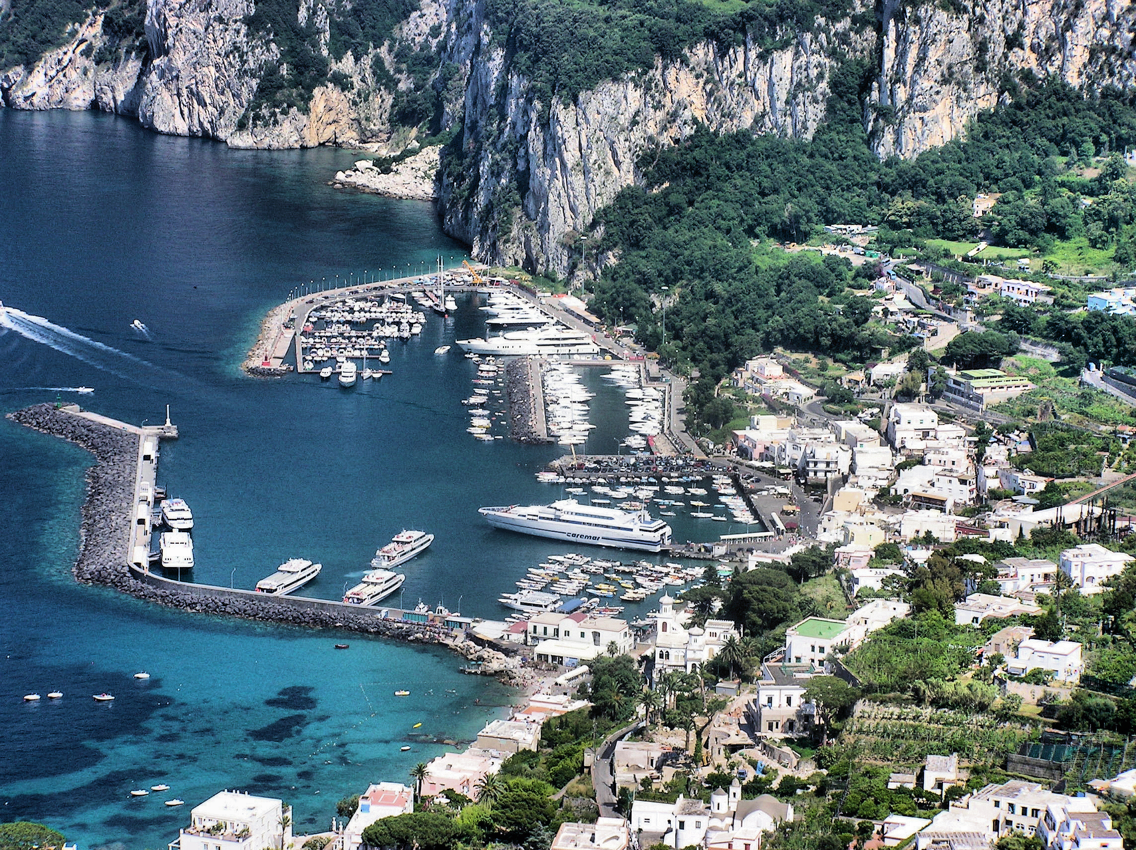 Capri harbour, from the viewpoint at Anacapri